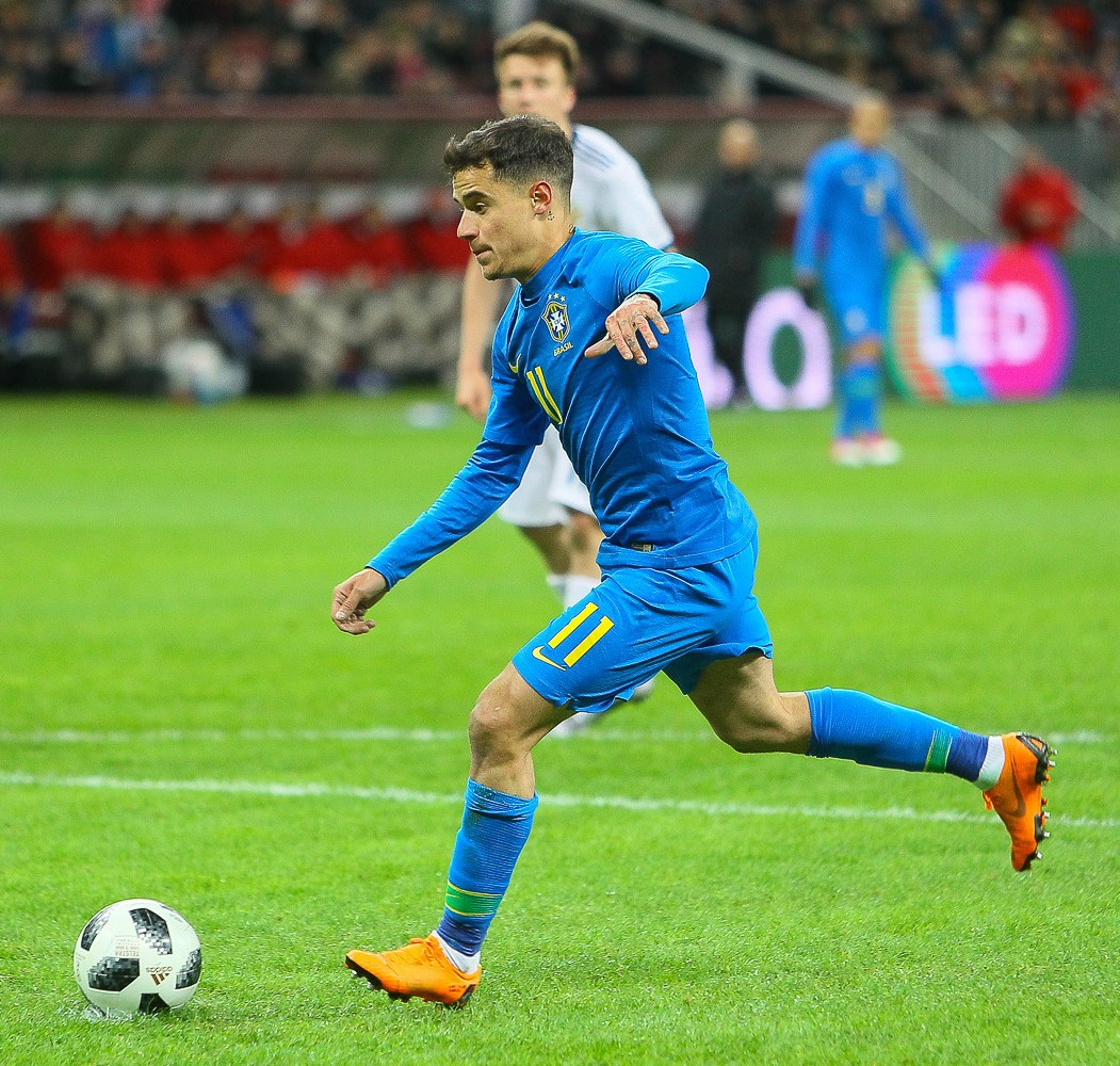 Philippe Coutinho